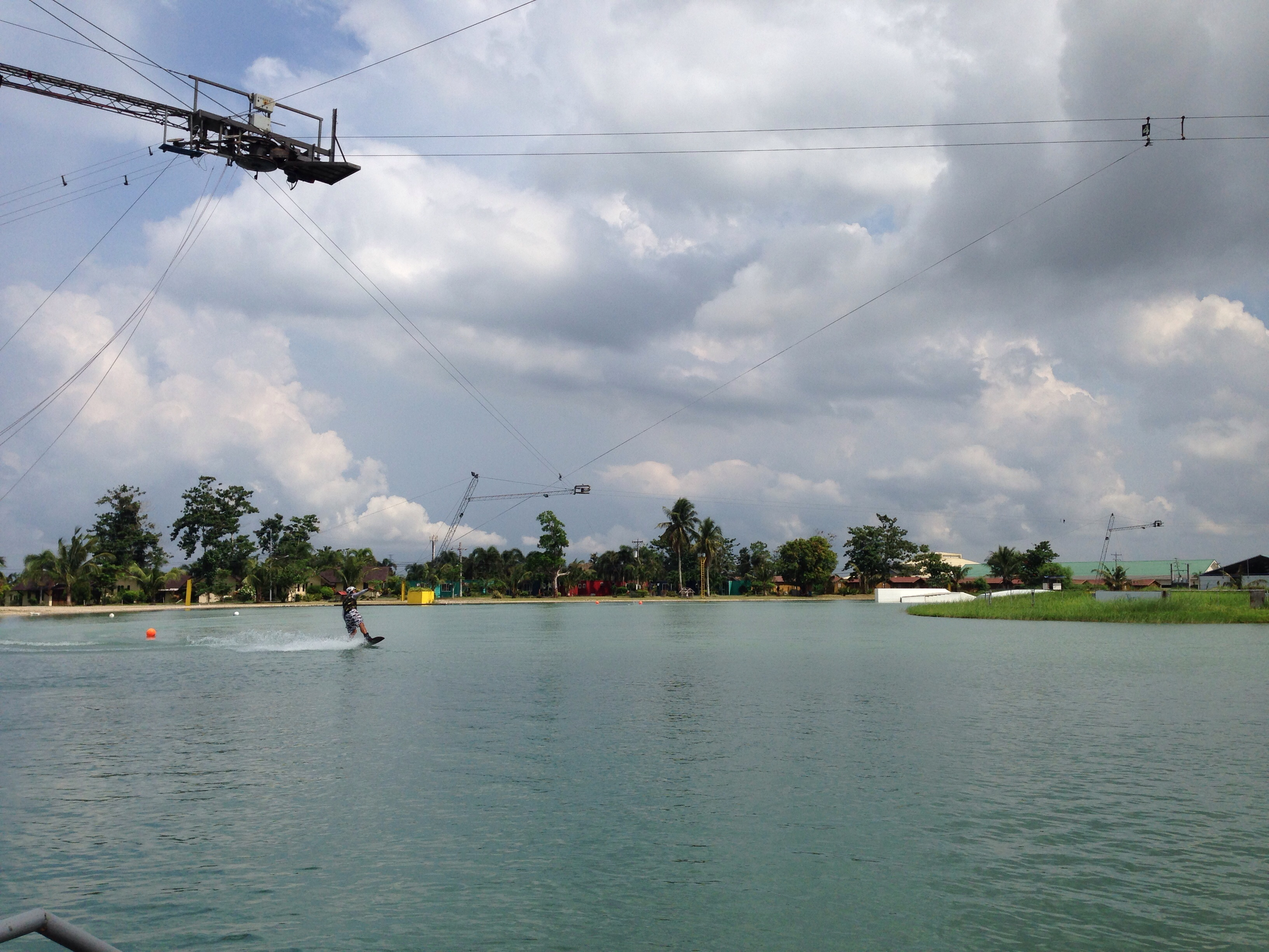 Camsur Watersports Complex (CWC) in Pili near the city of Naga in Camarines Sur, Philippines